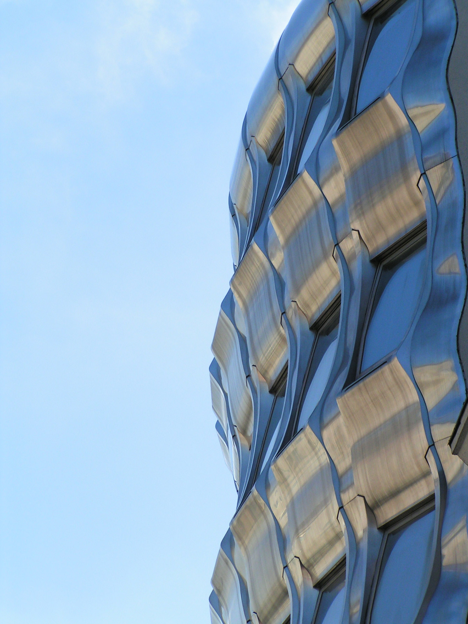 Detail of the cladding of the Zentralsparkassenfiliale in Vienna, District Favoriten.